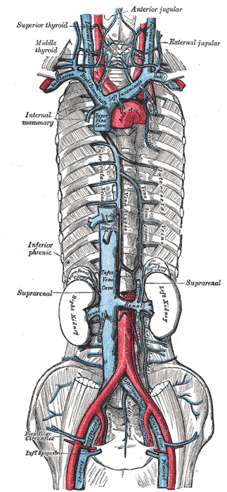 There are shown the superior und the inferior vena cava with their branches. The heart has been taken away and most of the aorta cut off.